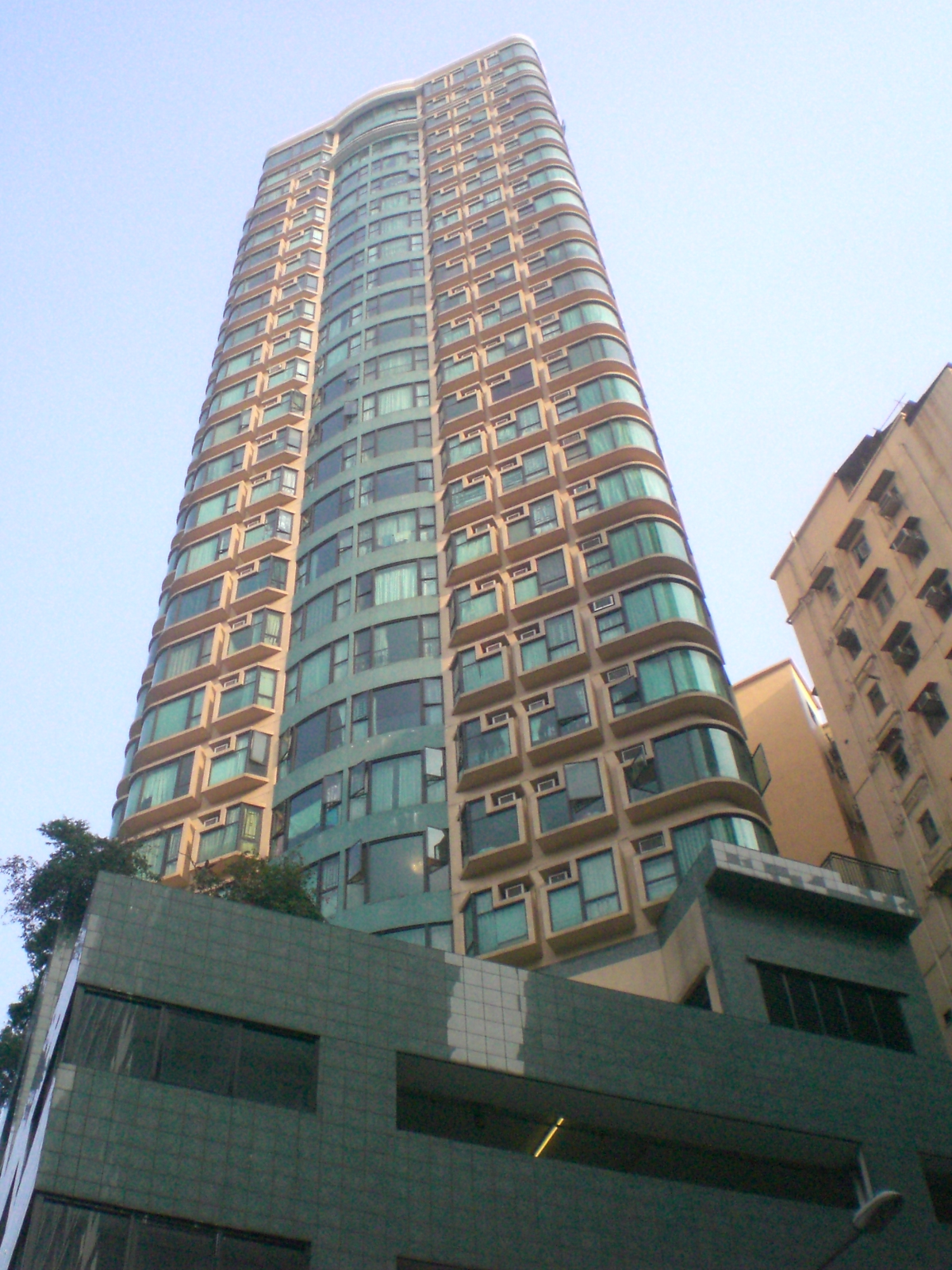 旺角 太子道西 別樹一居